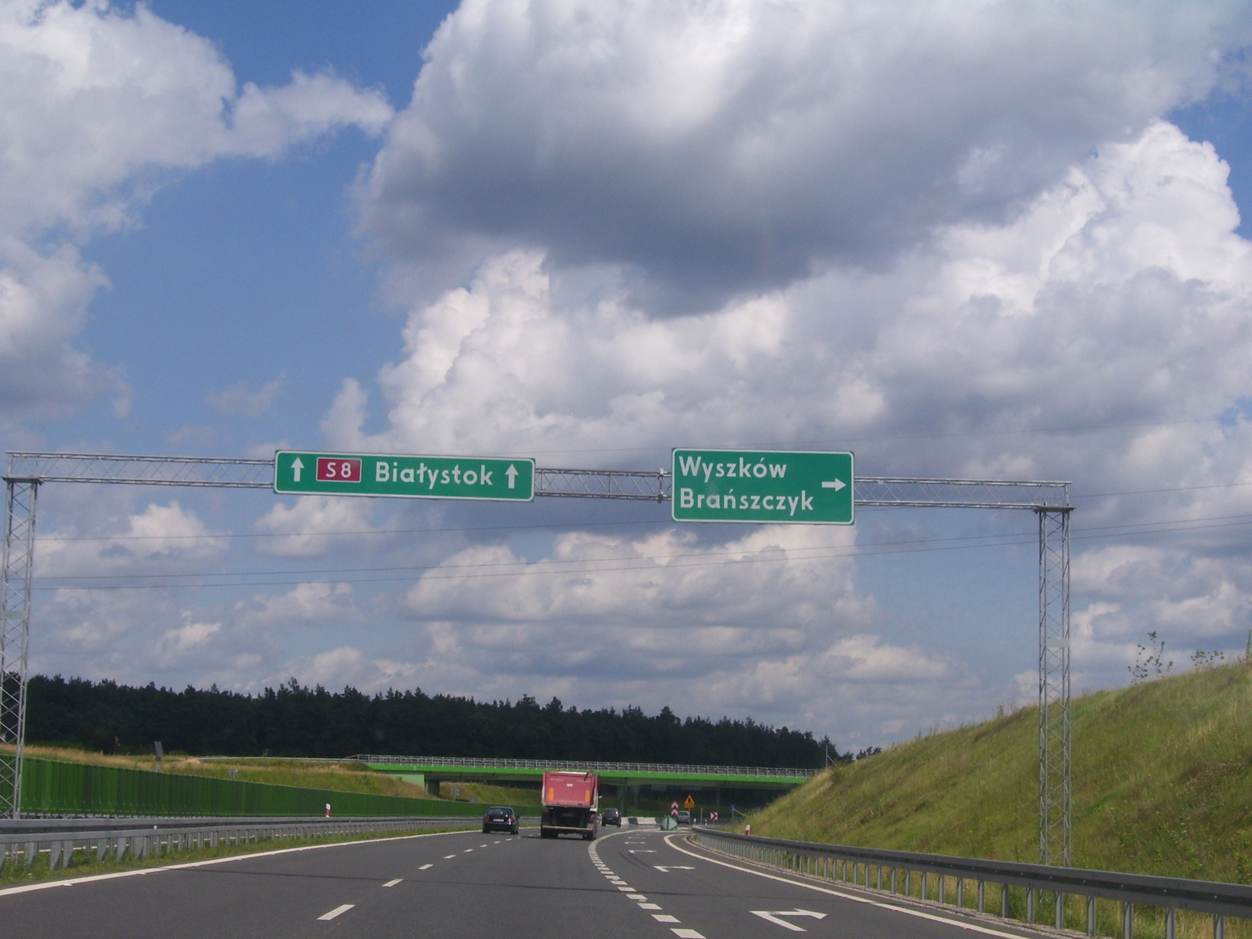 DK8 (Poland)